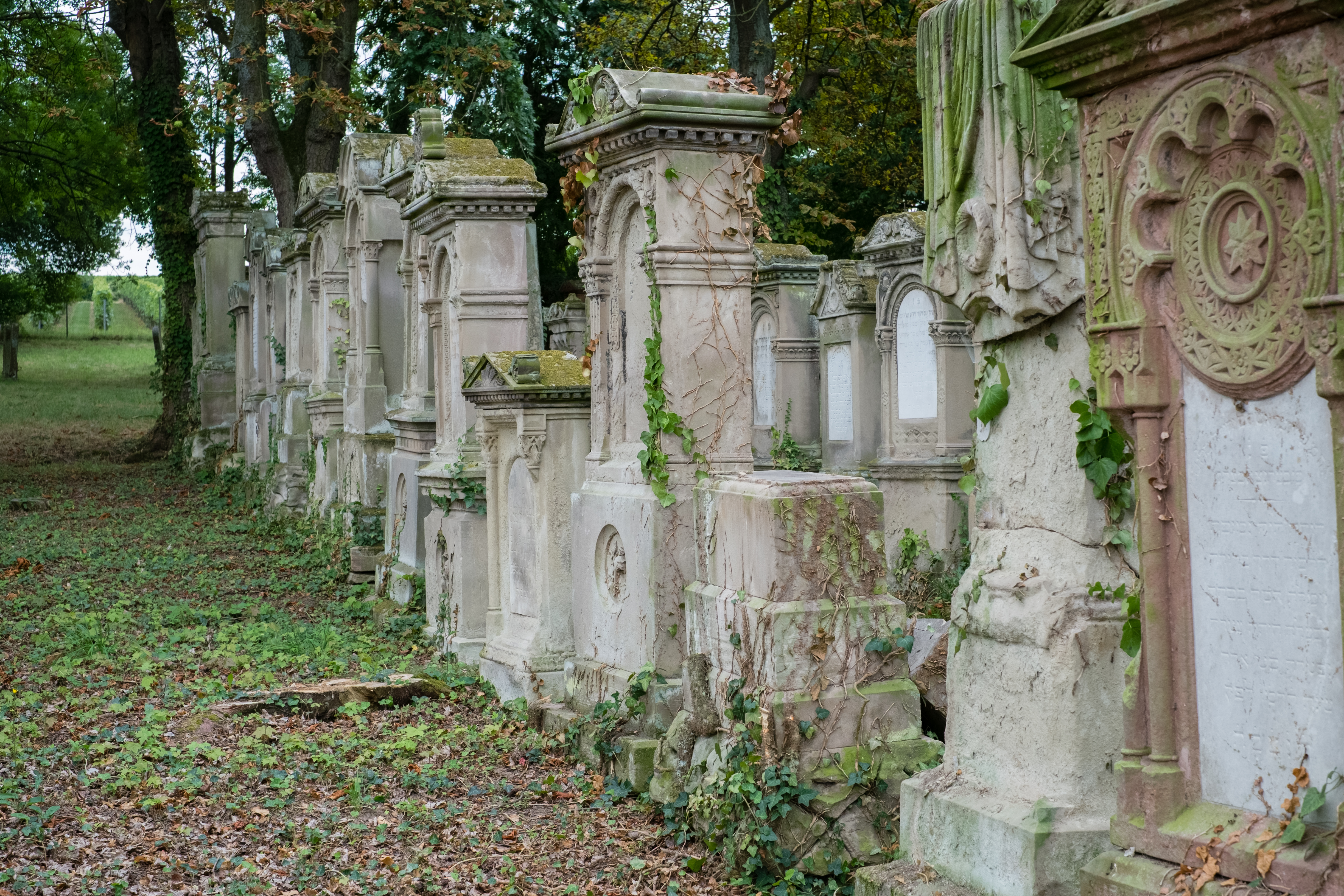 Jewish cemetery Ingenheim, Rhineland-Palatinate, Germany